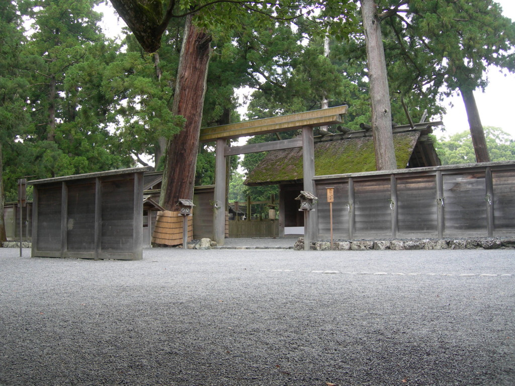 The Toyoukedaijingu (Geku) at Ise city Mie Prf. Japan.